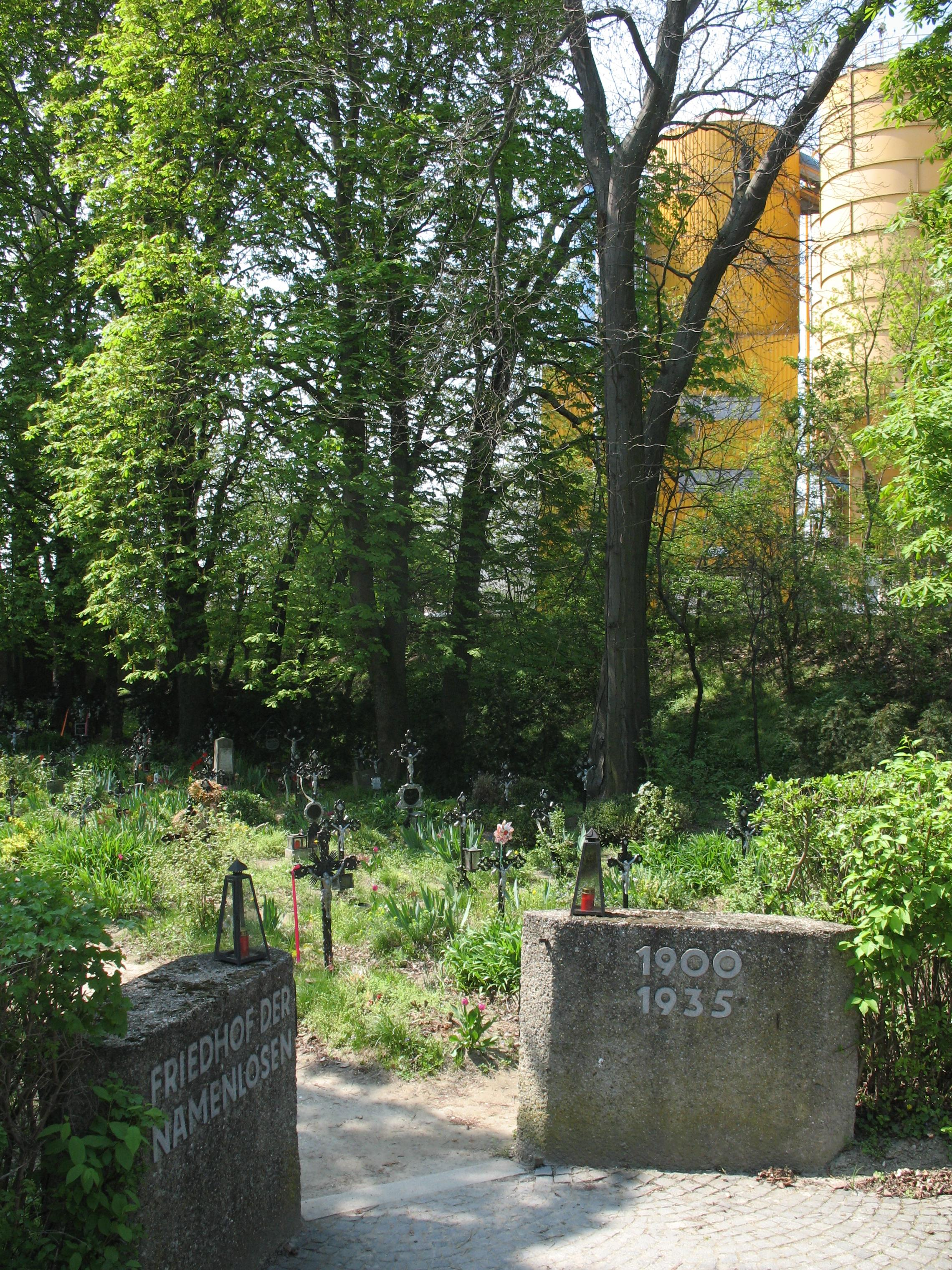 Cemetery of the Nameless in Vienna, Austria